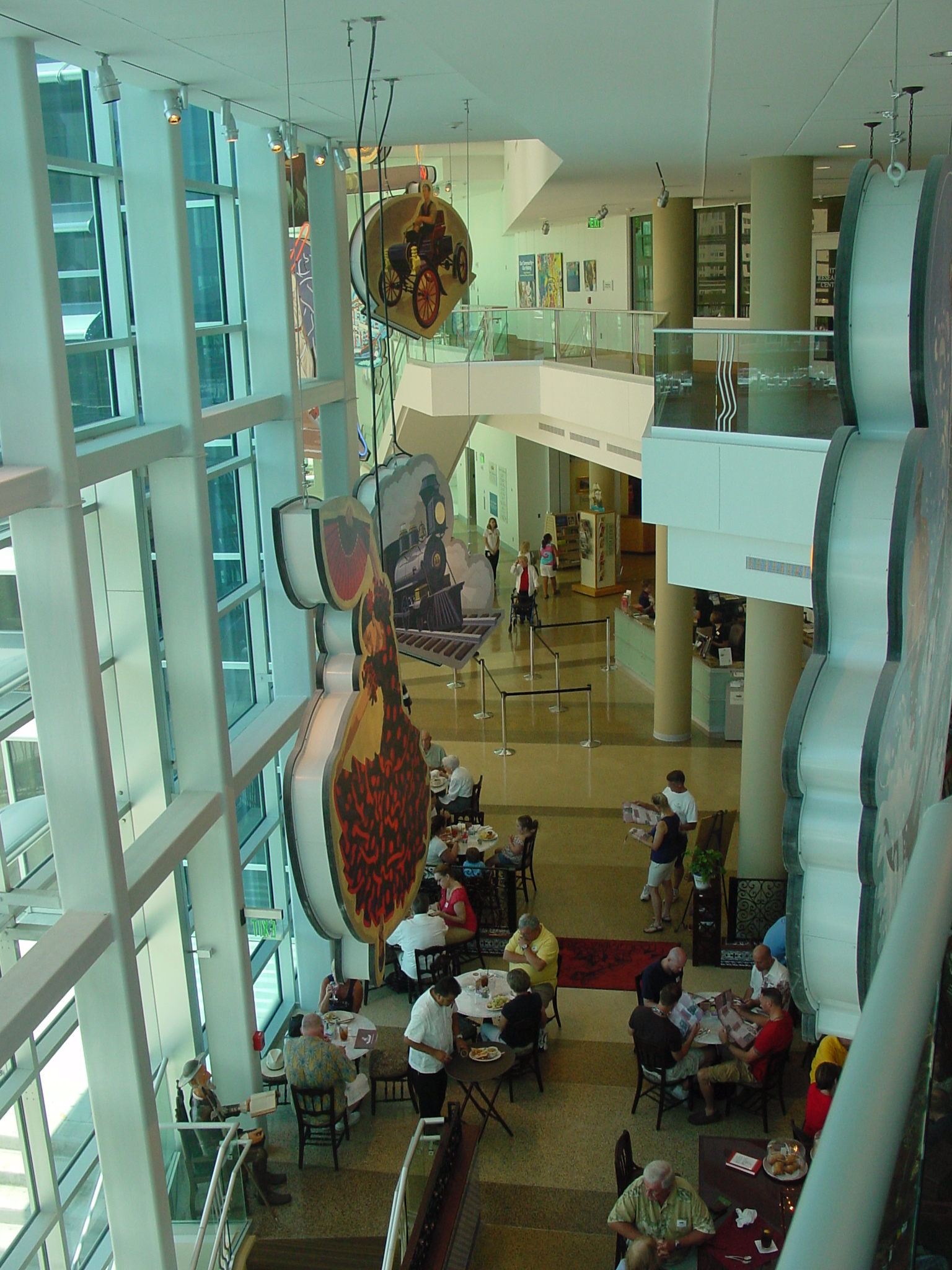 View of Lykes Atrium as seen from above the Columbia Cafe at the Tampa Bay History Center in Tampa, Florida.